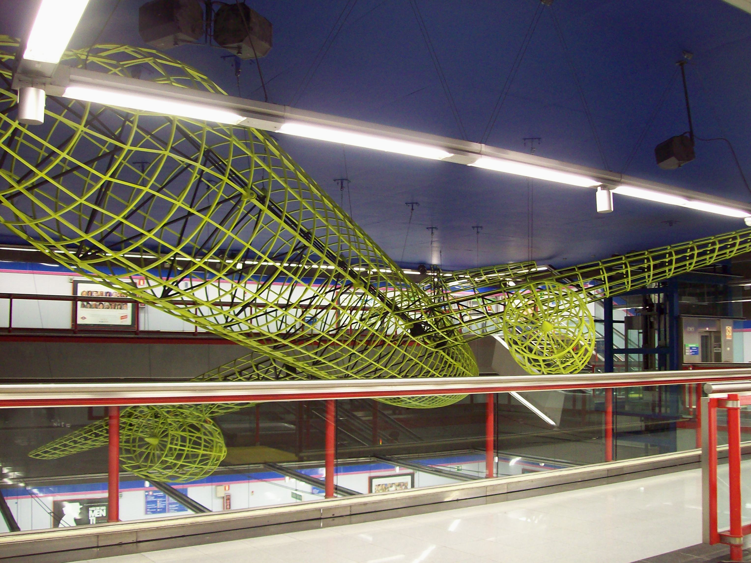 Interior of Colombia metro station in Madrid (Spain).